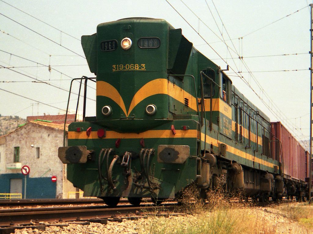 Single cabin locomotive RENFE 319.068 of American construction with container train at the Station of Benicàssim